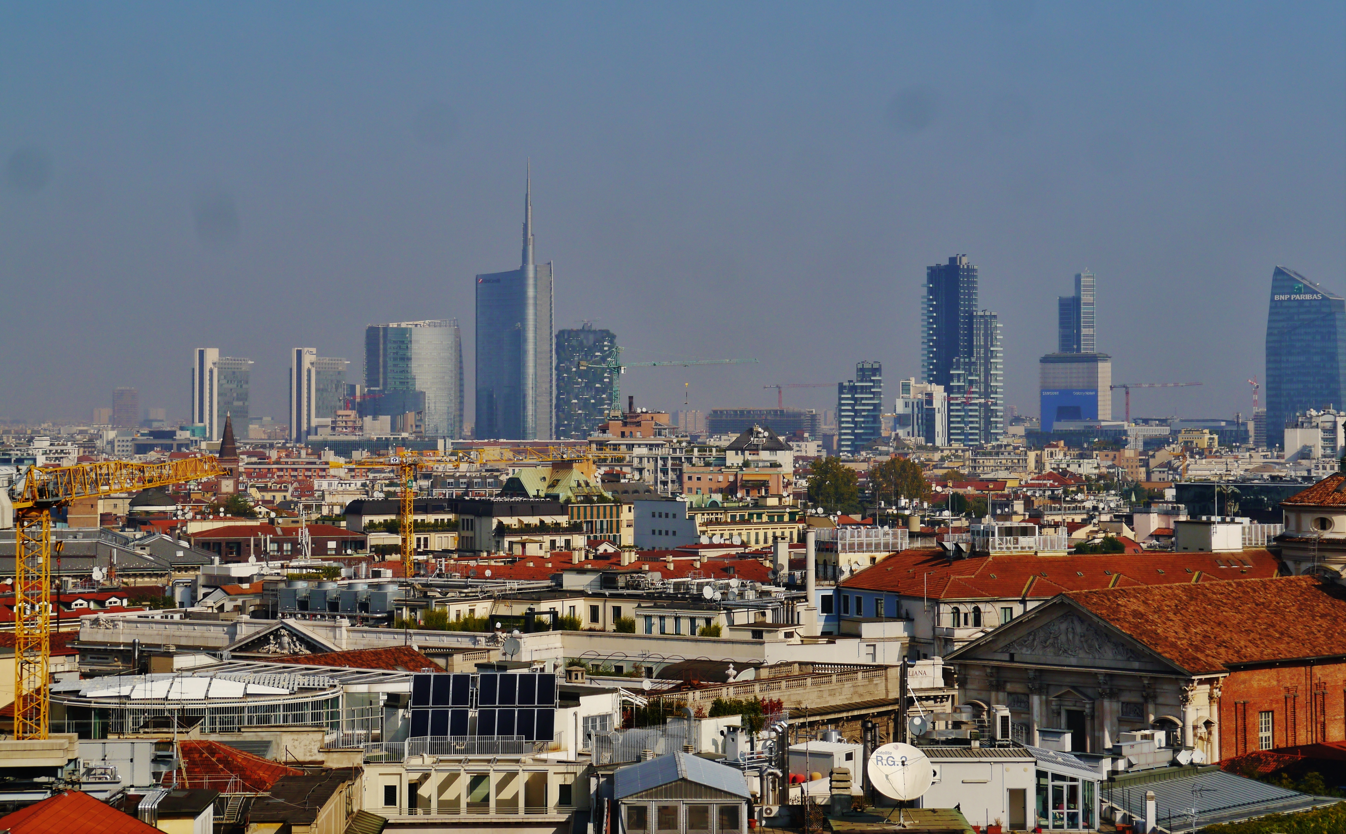 View from the Roof of the Cathedral of St. Mary Assumption to Milan Skyline, Milan, Province of Milan, Region of Lombardy, Italy